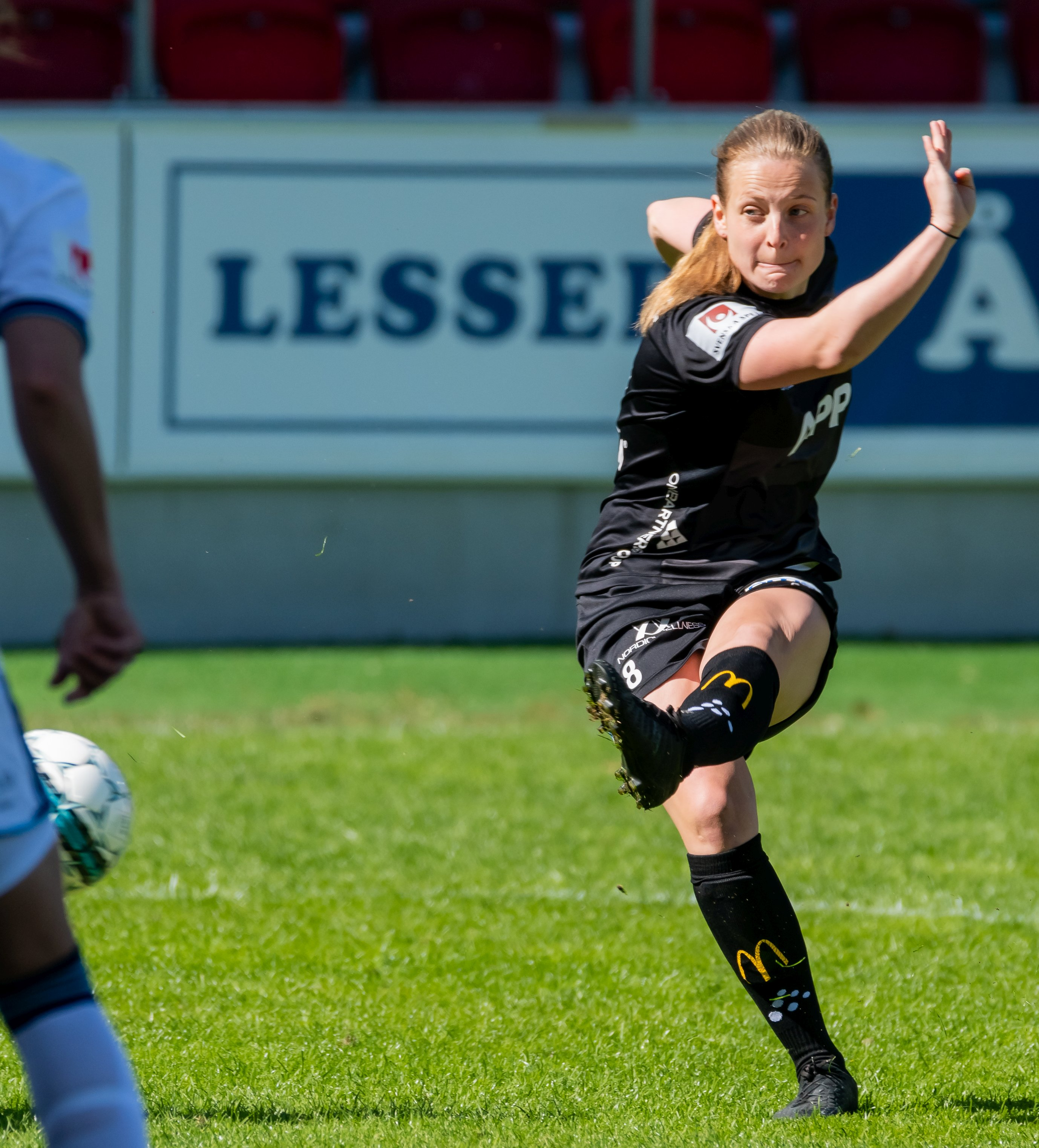 Swedish association footballer Anna Anvegård playing for Växjö DFF in 2018.